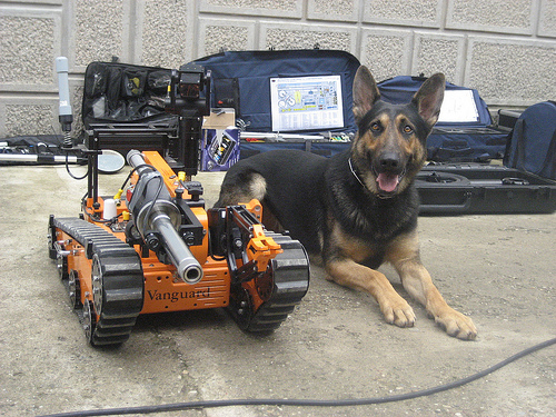 Explosive dog